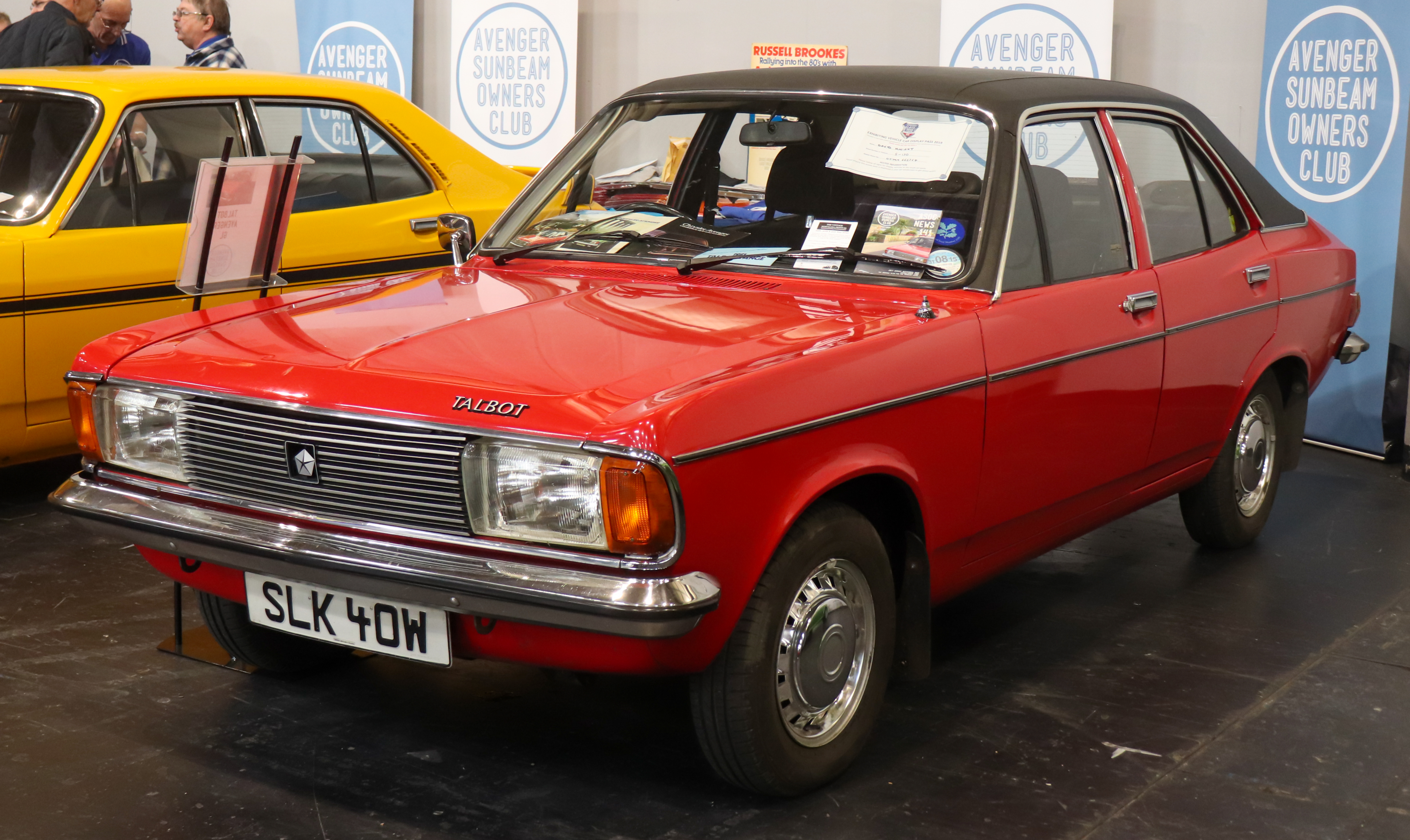 1981 Talbot Avenger GL 1.6 Taken at the NEC Classic Motor Show 2019